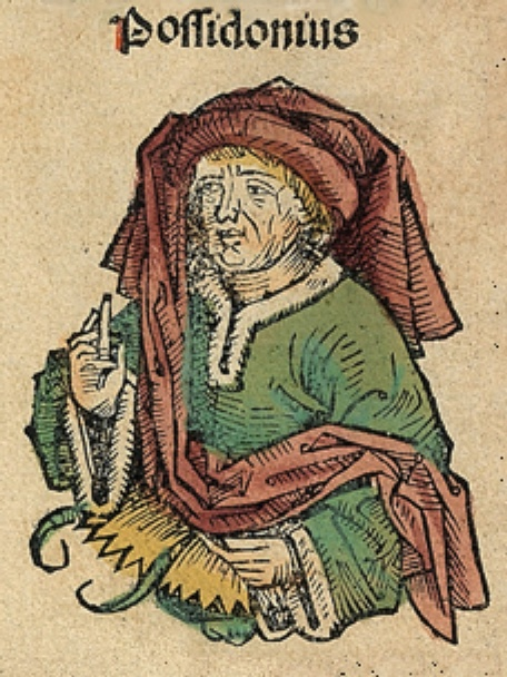 Ancient Greek philosopher Posidonius, depicted in the Nuremberg Chronicle